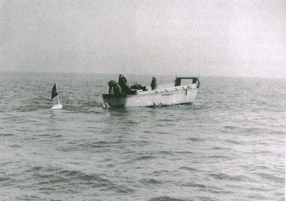 United States Navy sailors stream minesweeping equipment from an LCVP off Chinnampo, North Korea, during the Korean War.